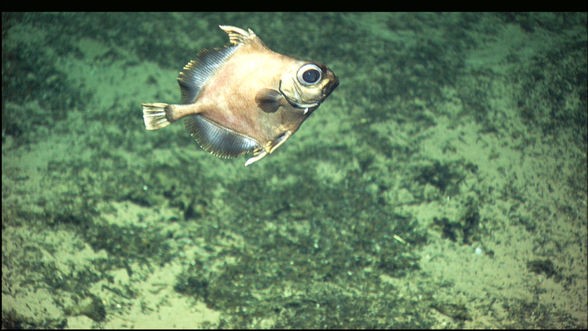 Neocyttus helgae North Atlantic Stepping Stones Expedition 2005